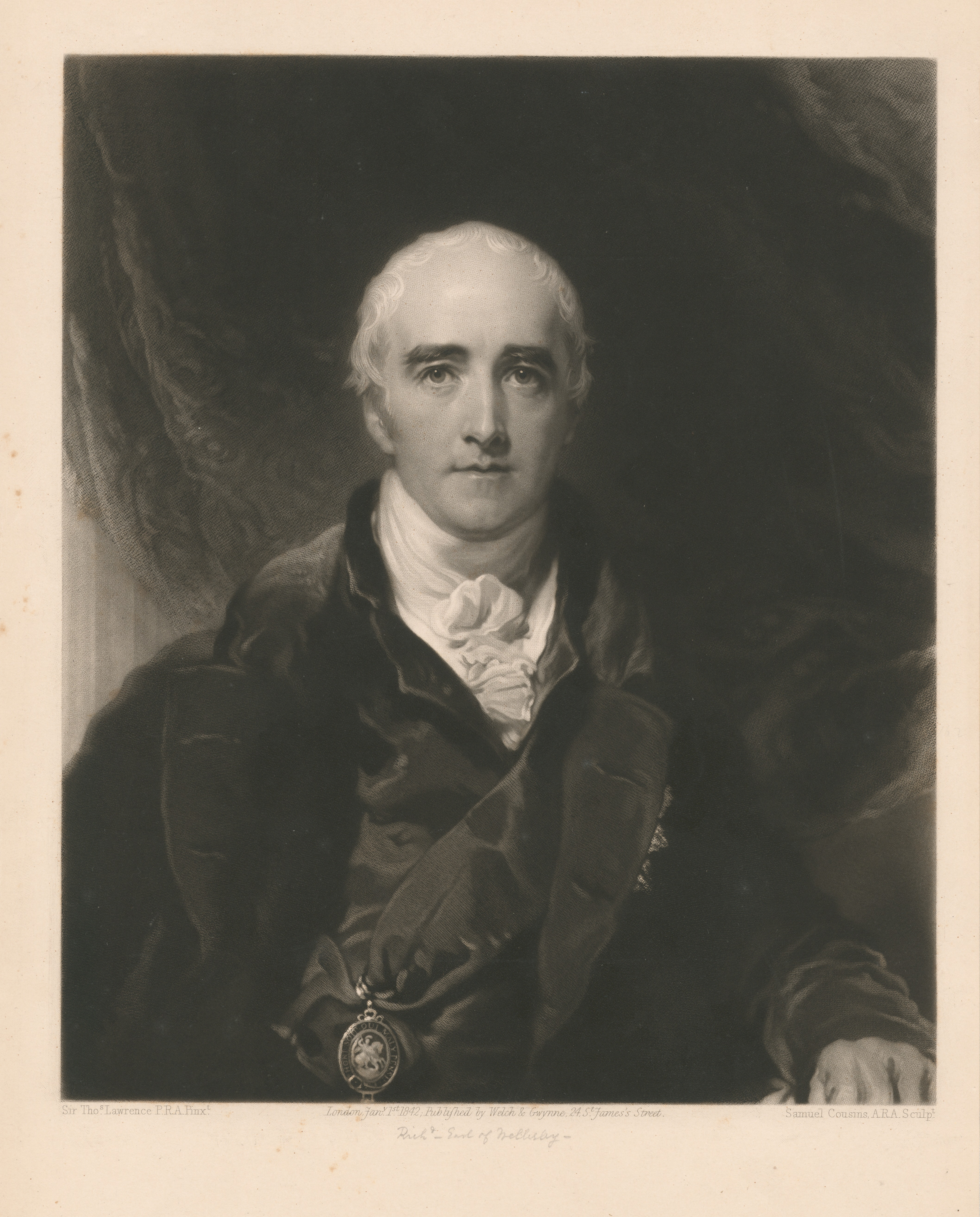 EM3535